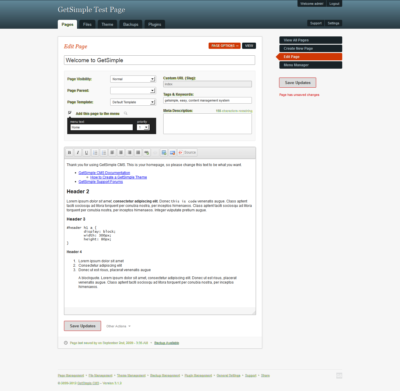 Getsimple 3.1.2 Backend